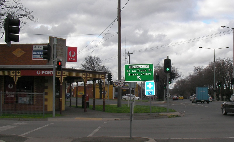 Shops on the junction of Skipton, Drummond and Darling Streets Redan